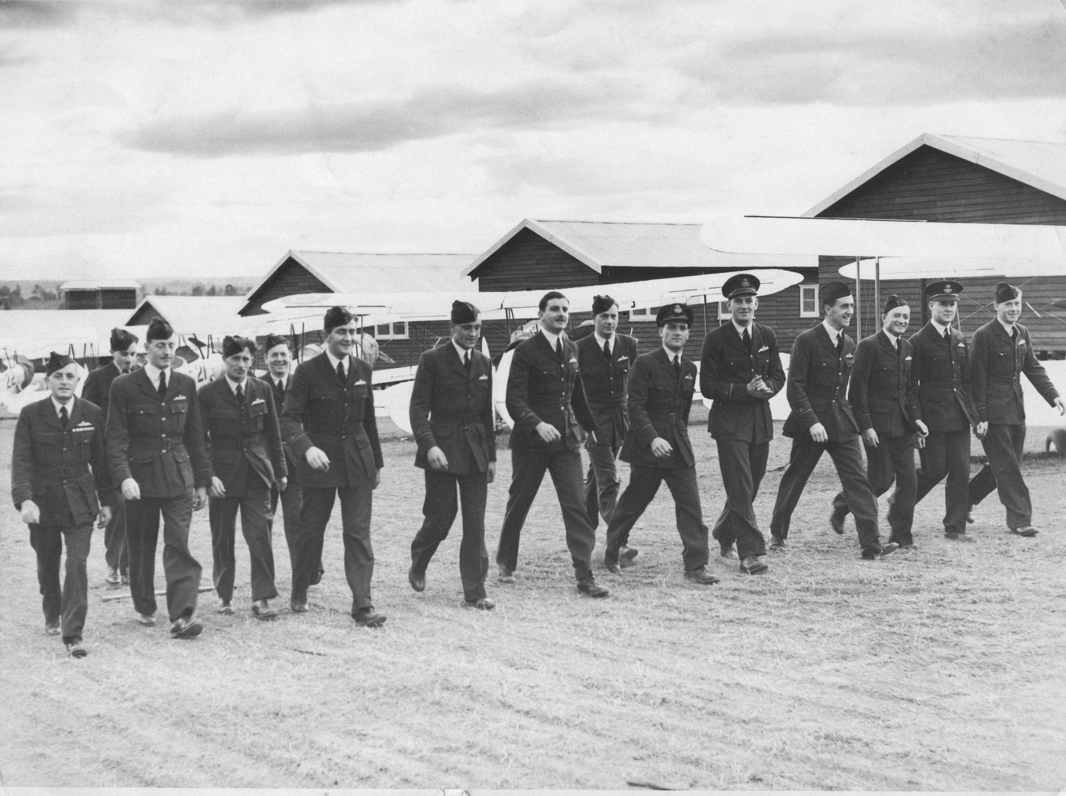 Staff of Central Flying School (CFS), shortly after the unit arrived at RAAF Station Camden, New South Wales. Left to right: Fred Huxley, Duncan Campbell(?), Alan Ferguson, Flight Lieutenant (later Air Vice Marshal) Brian Alexander Eaton, Tim O'Connell, John Hawdon, Ranald Watt, Flying Officer Ian Frederick Rose (later commanding officer of CFS 1946–48), John Weston, Tony Parker, Bruce Rose, Ivan Black, Stacey Dillon, unknown, Torchy Dennis